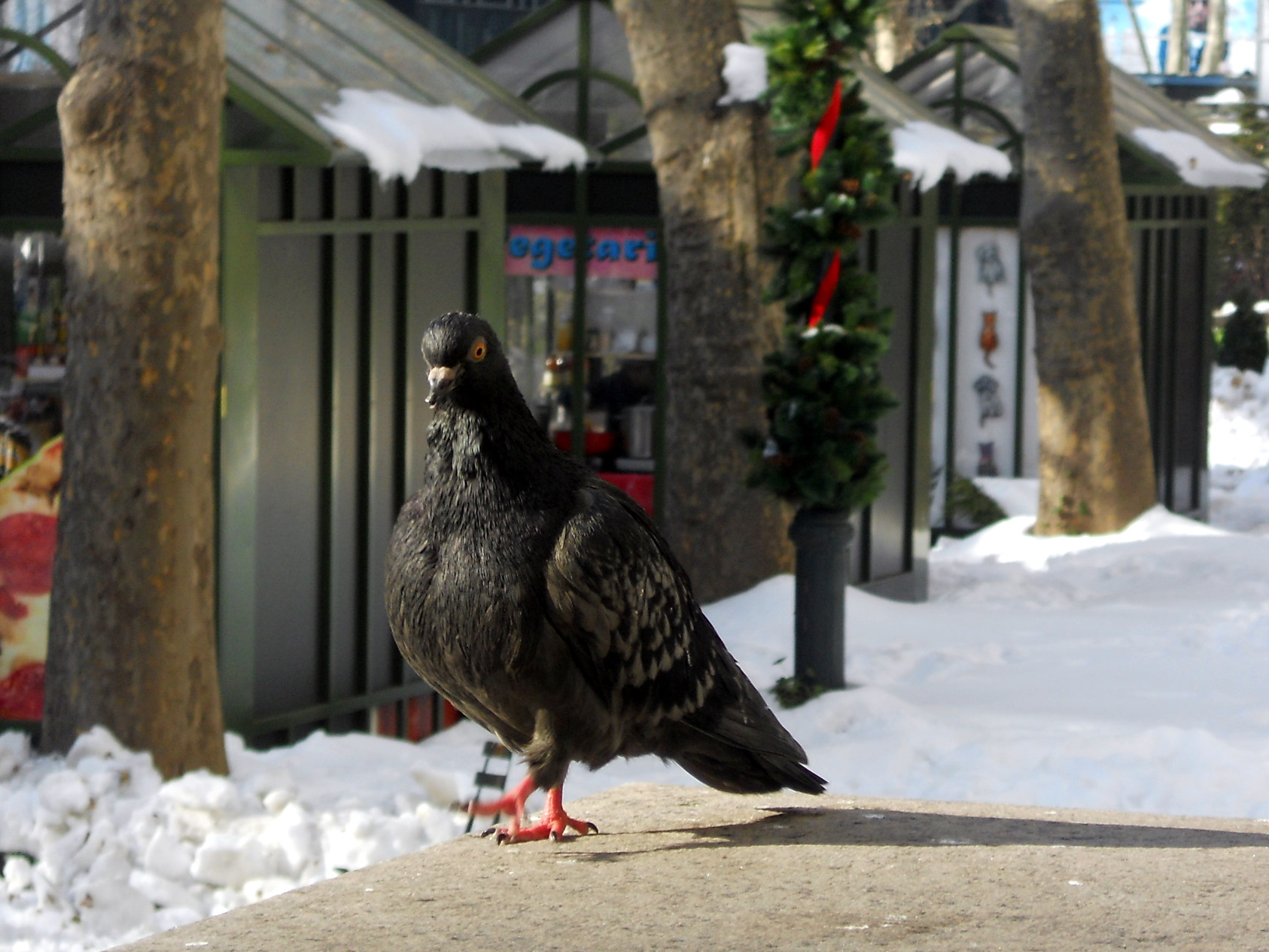 A pigeon at Bryant Park